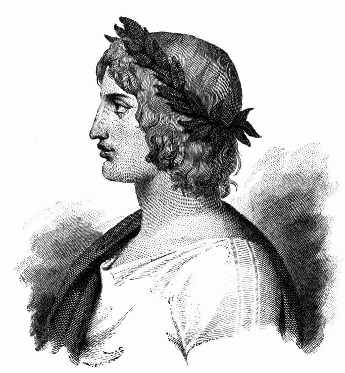 an image of the youthful poet Virgil of unknown author, profile with the laurel wreath